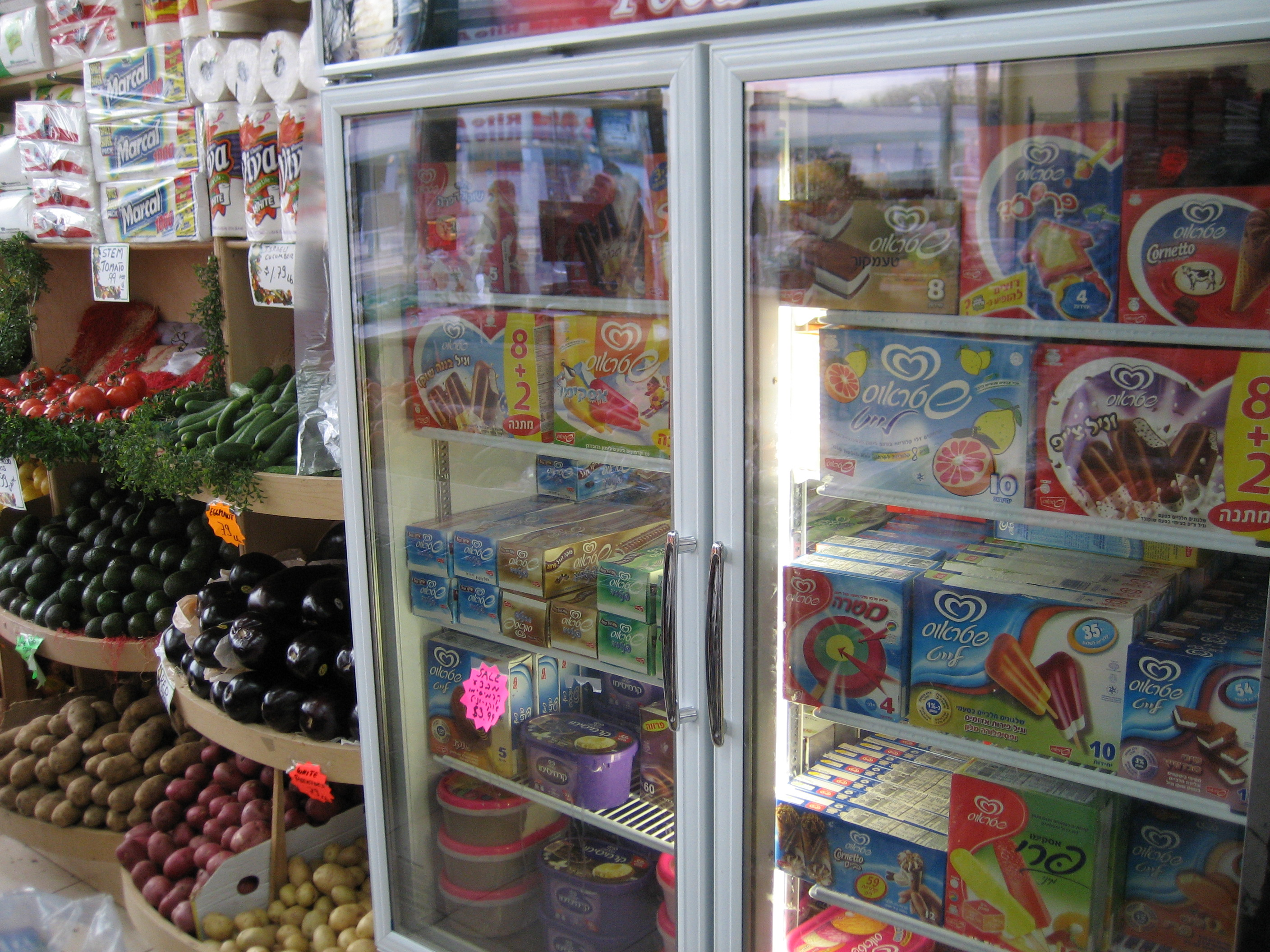 A freezer in Queens, NY, USA filled with Israeli brand Strauss Ice Cream